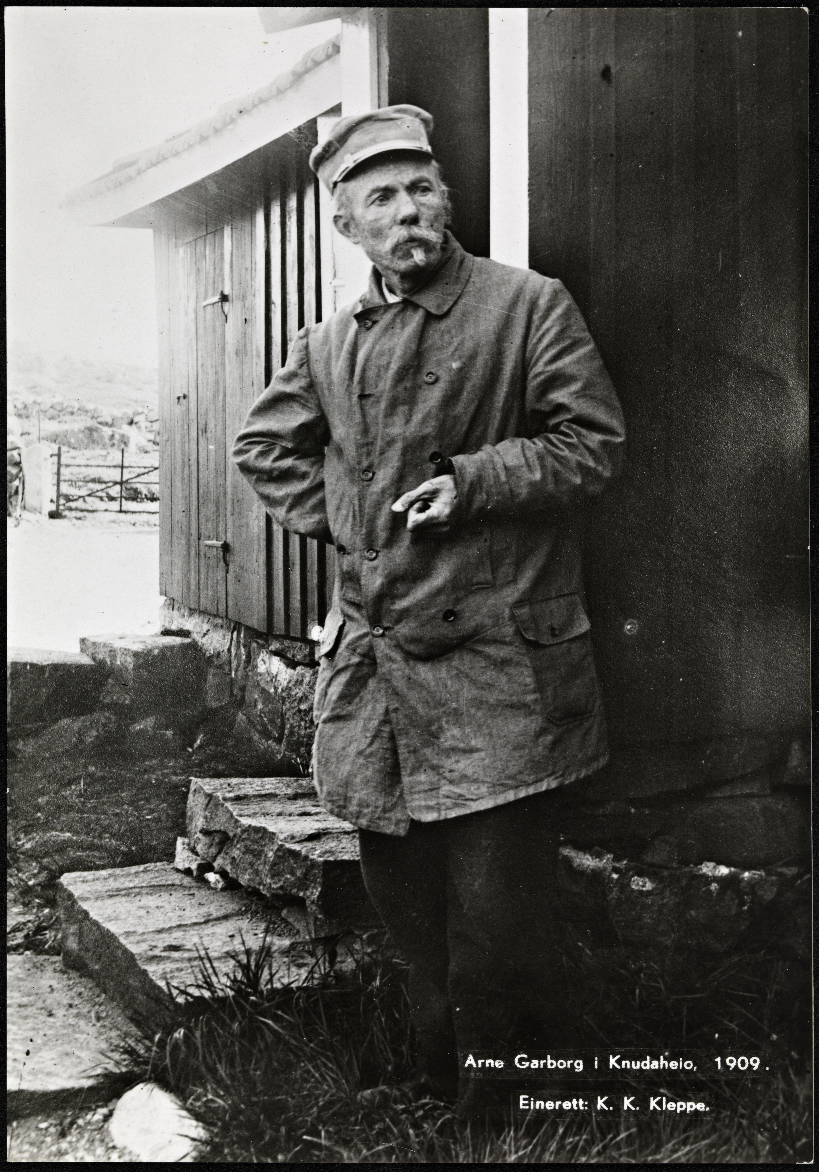 Tittel / Title: Arne Garborg i Knudaheio, 1909 Motiv / Motif: Postkort. Dato / Date: 1909 Fotograf / Photographer: K. K. Kleppe (1877-1959) Sted / Place: Knudaheio, Time, Jæren Eier / Owner Institution: Nasjonalbiblioteket / National Library of Norway Lenke / Link: Bildesignatur / Image Number: blds_03546